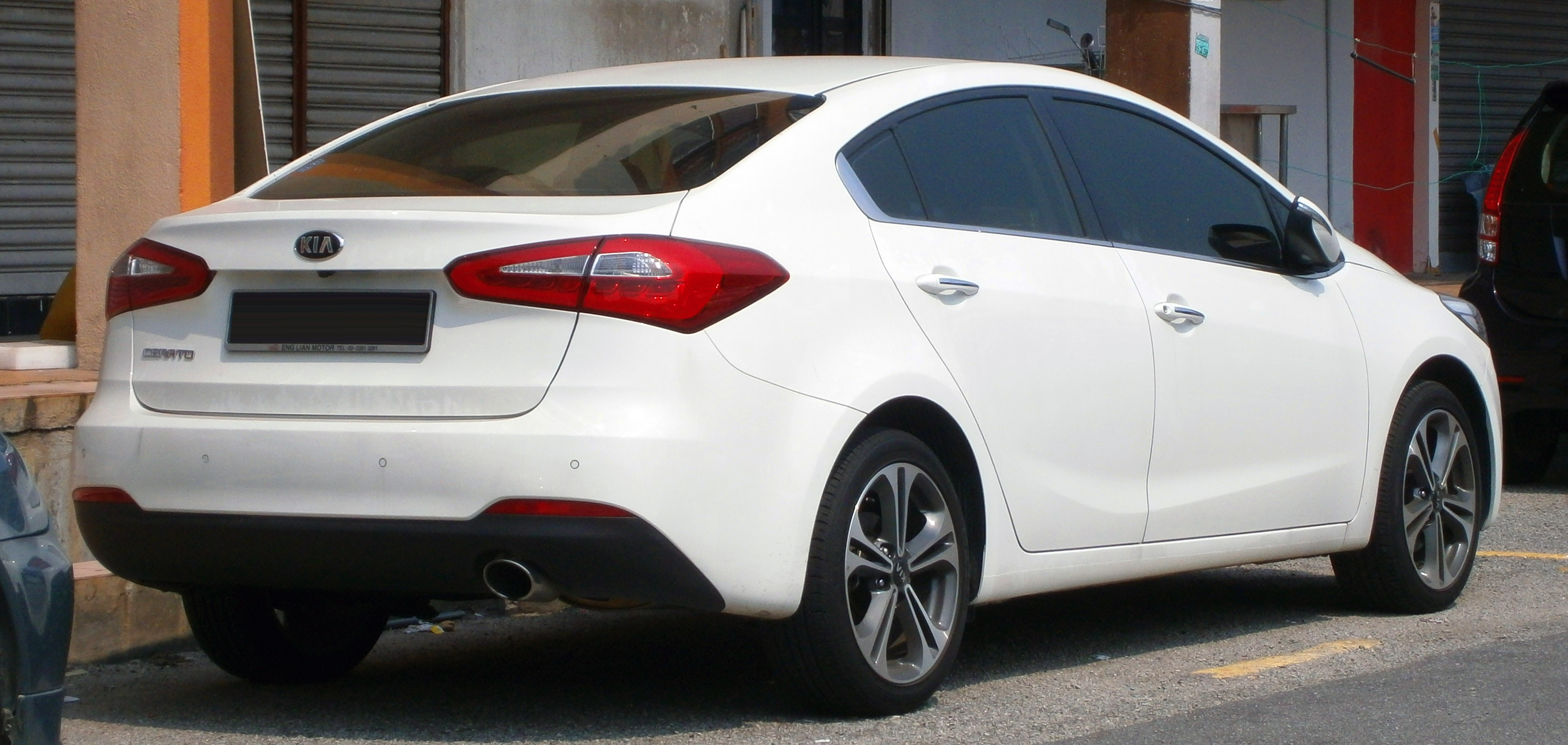 2013 Kia Cerato 1.6 in Subang Jaya, Malaysia. Designed in South Korea , Assembled in Malaysia